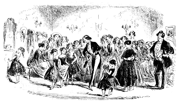 The Dancing School by "Phiz" (Hablot Knight Browne) for Bleak House (1853), p. 134. 4 /18 x 7 1/4 inches.